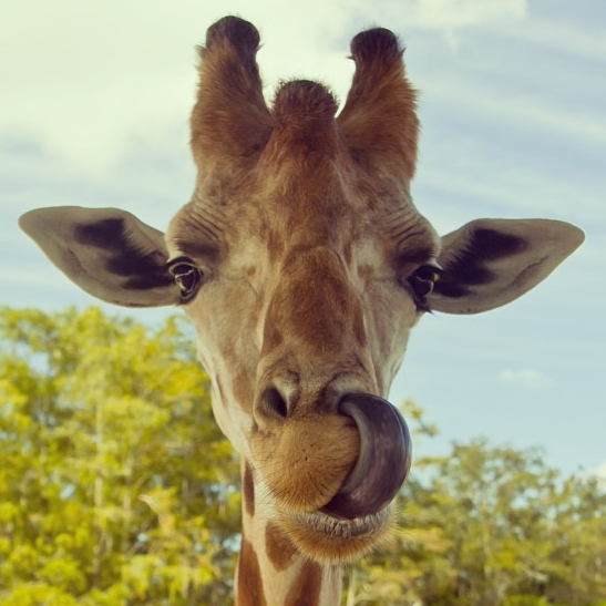 Giraffe. "Lion Country Safari", Florida, USA